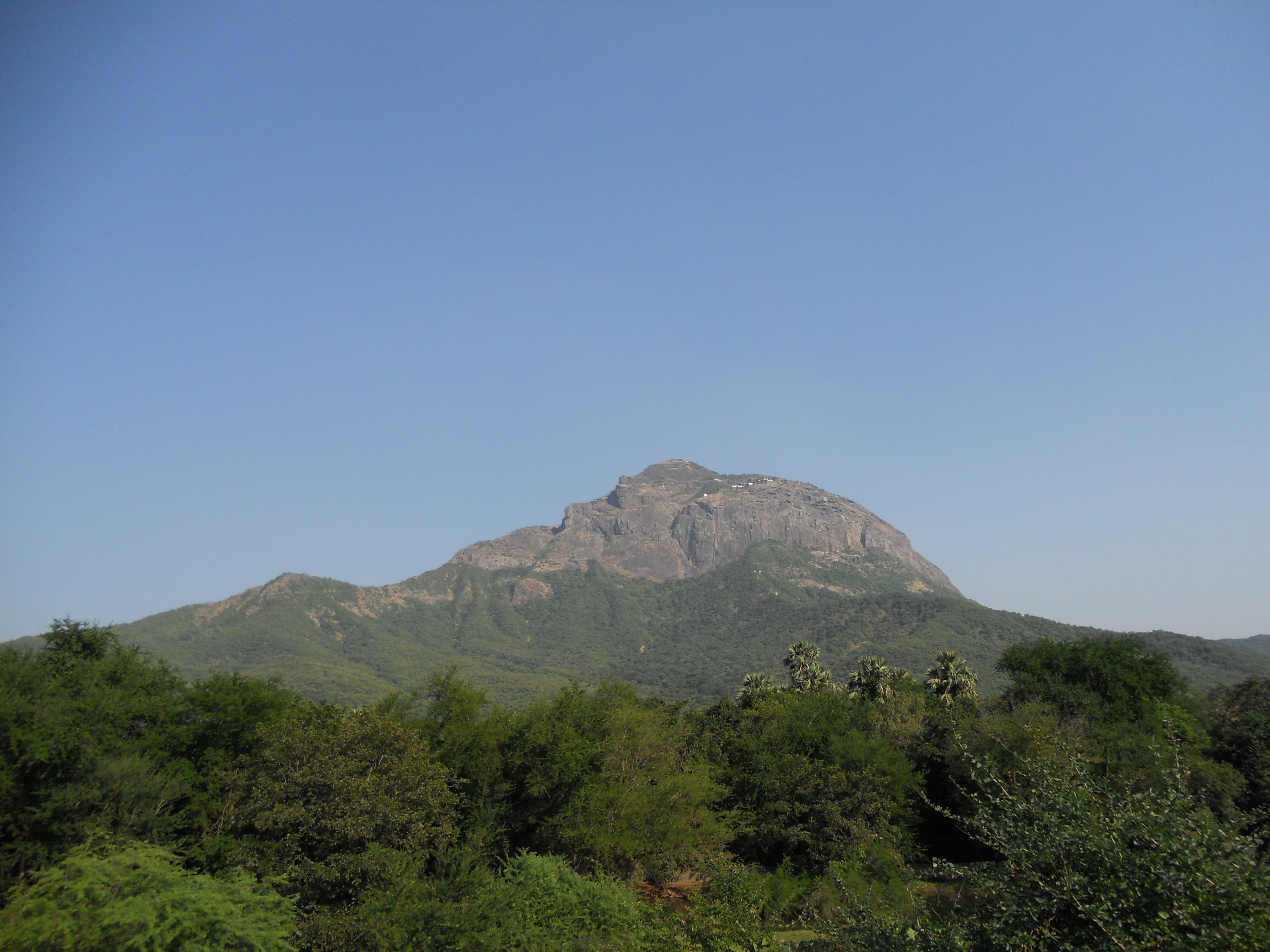 Girnar Full View Photo from Rupayatan, Bhavnath, Junagadh